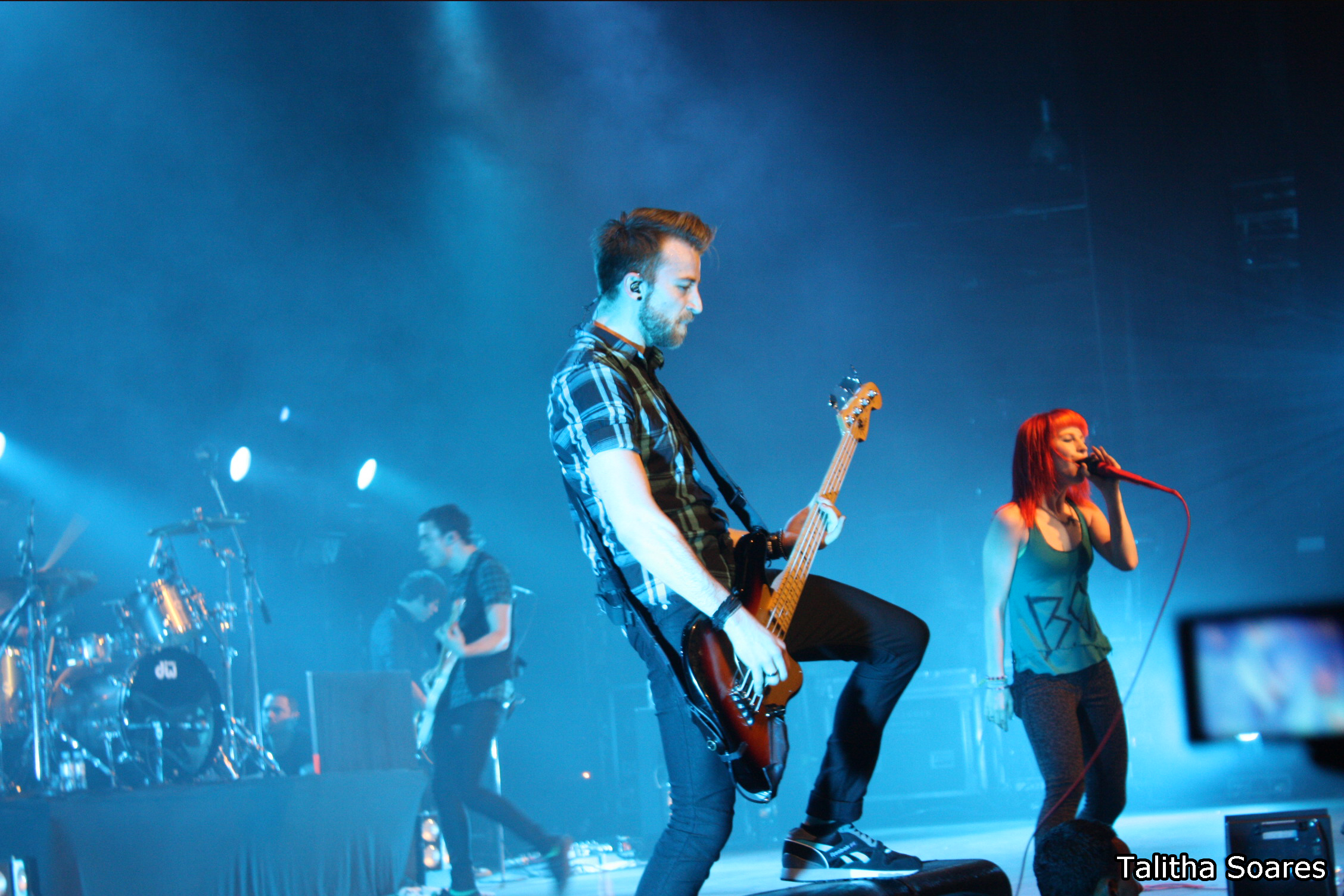 Paramore 2011, Rio de Janeiro